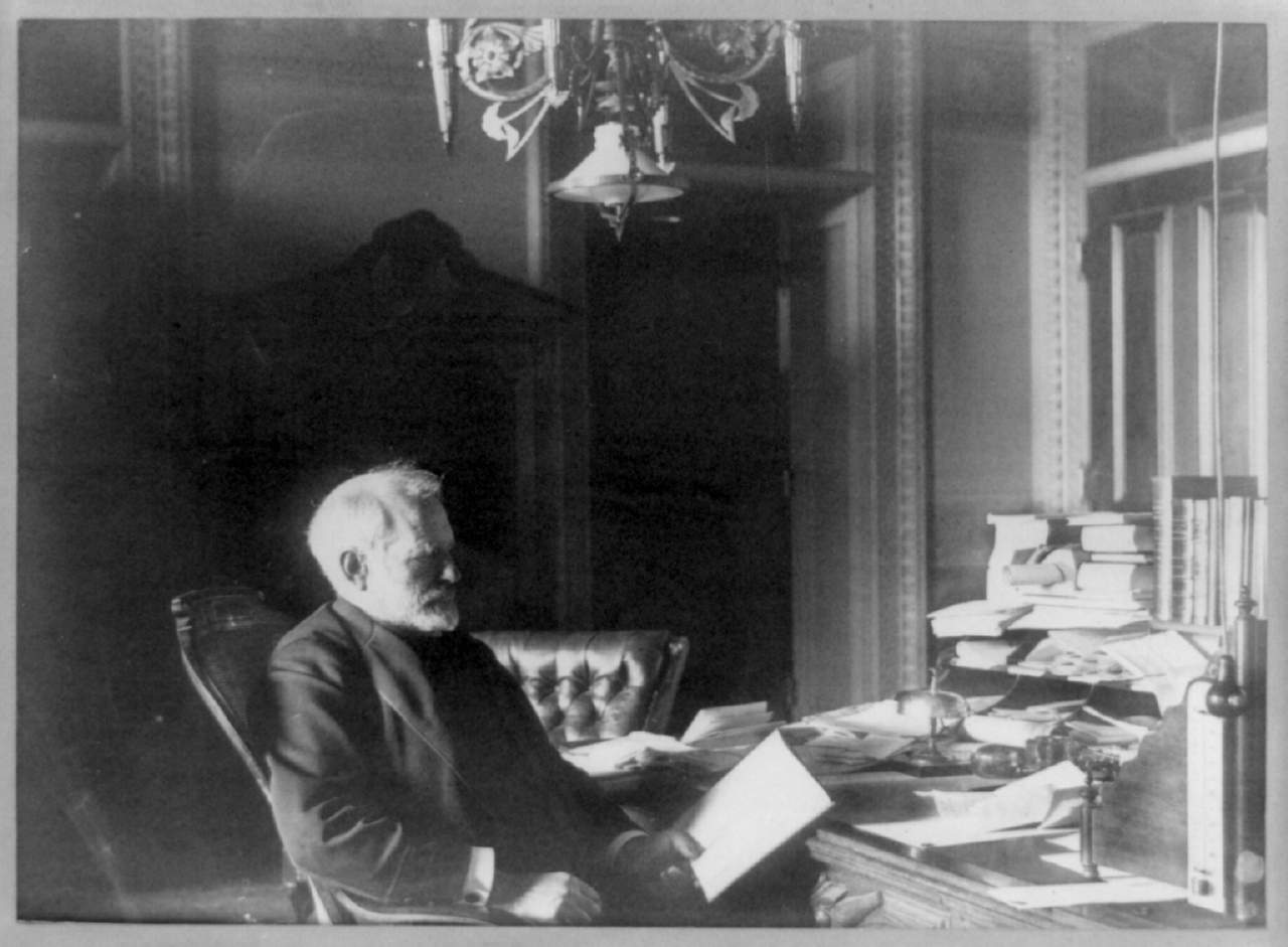 Benjamin F. Tracy, Secretary of the Navy